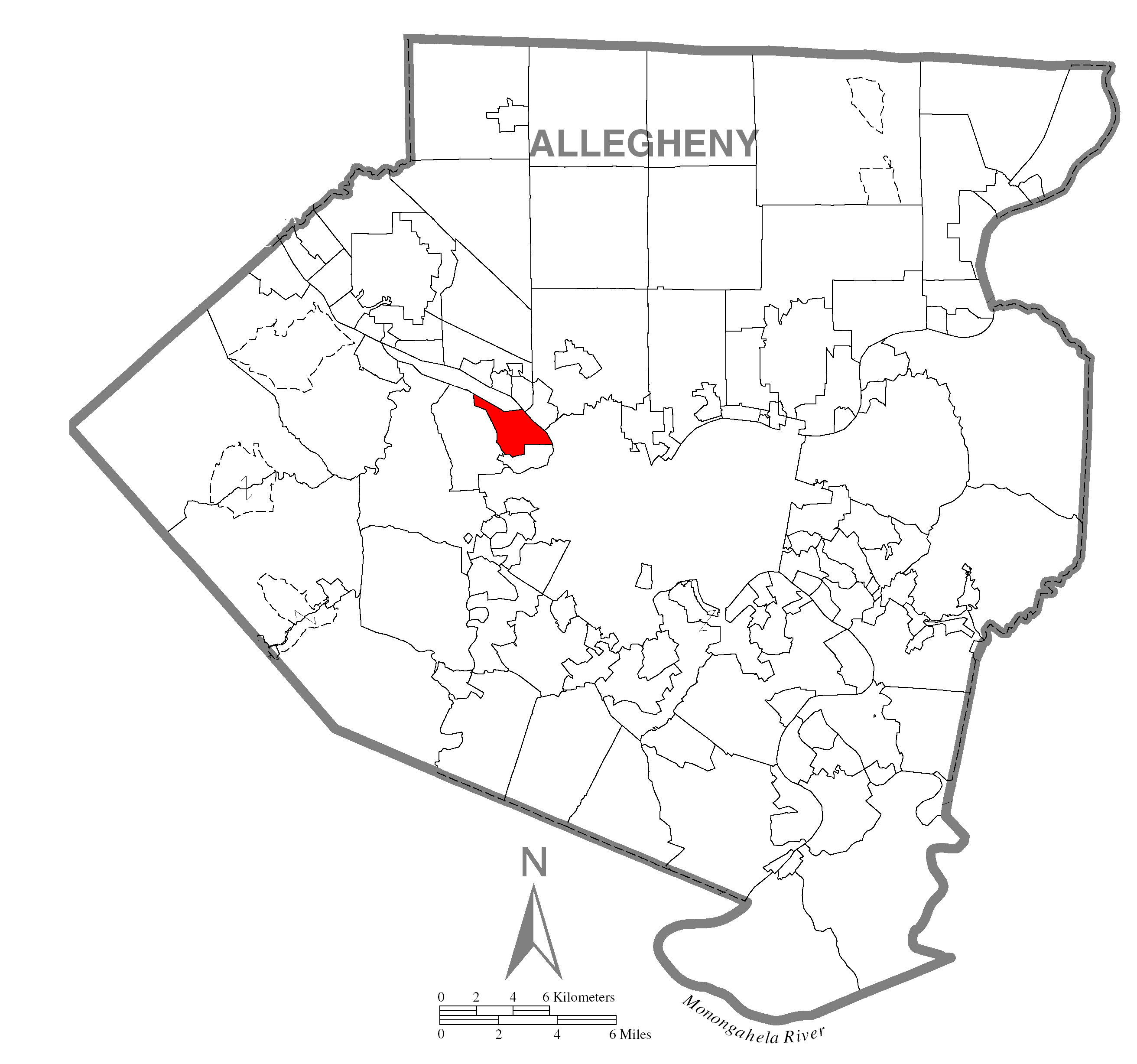 A map of Allegheny County showing Stowe Township, Pennsylvania (alternate) highlighted on the map.